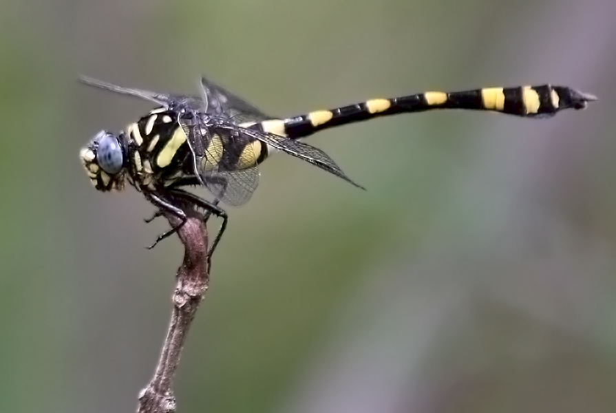 Common Clubtail Ictinogomphus rapax in Narsapur, Medak district, Andhra Pradesh, India.